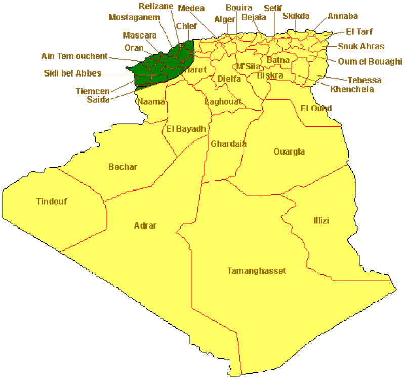 Region of Orania (Algeria)